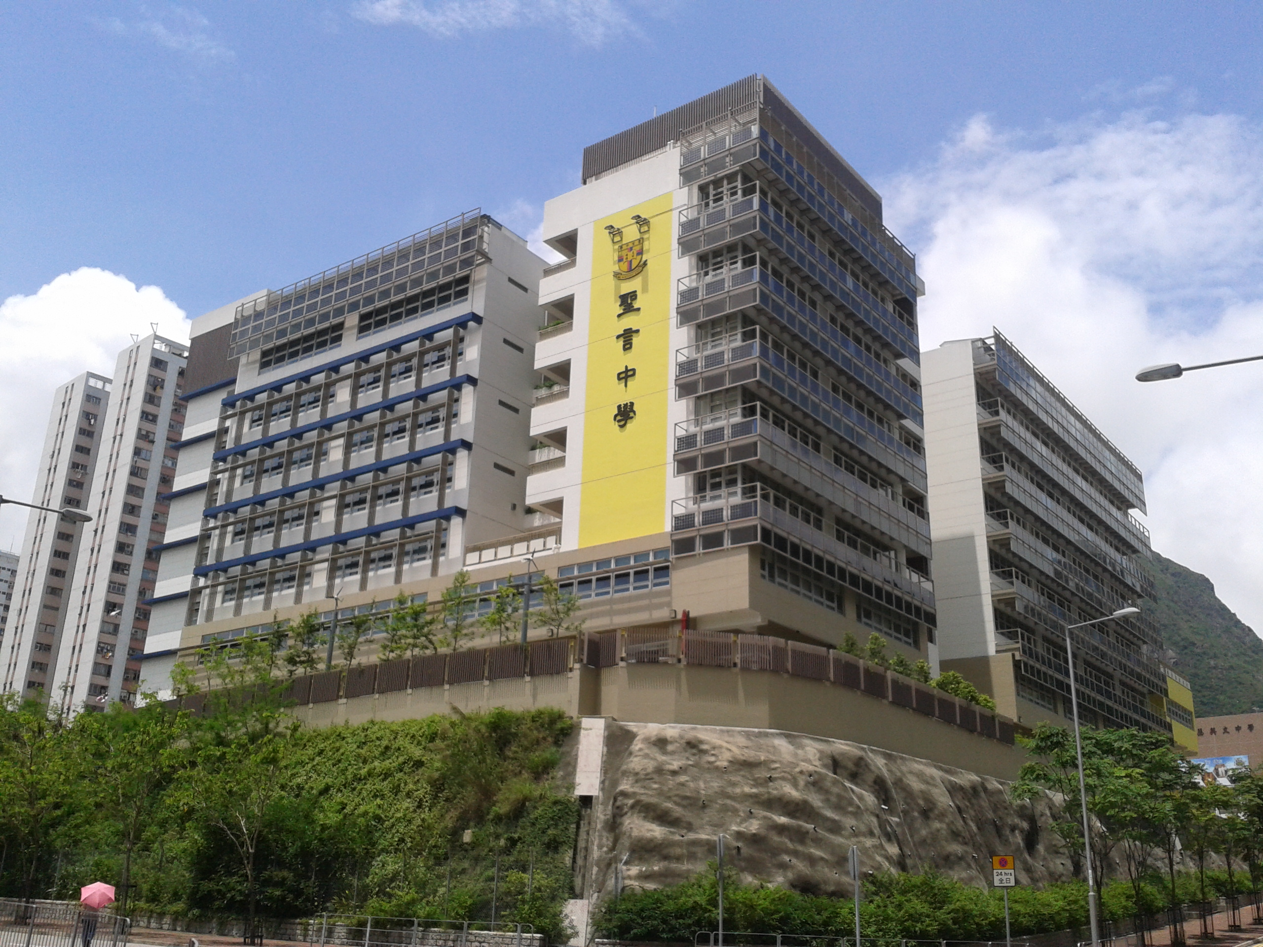 Choi Wan Campus, Sing Yin Secondary School 中文（香港）: 聖言中學彩雲校舍